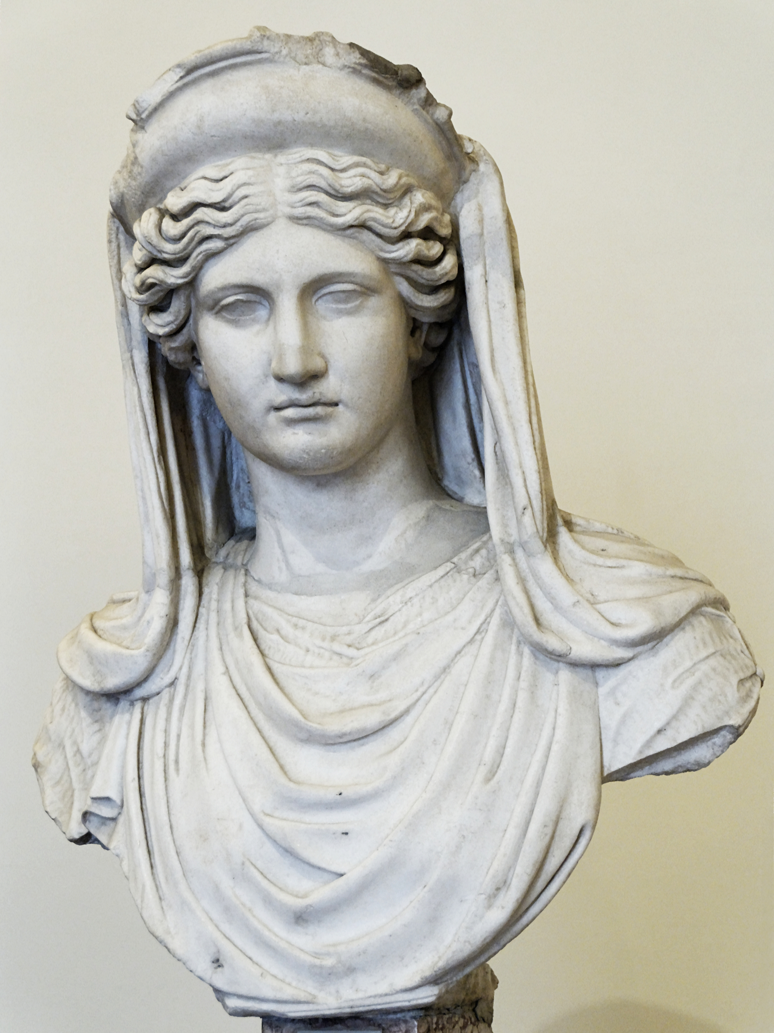 Demeter. Marble, Roman copy after a Greek original from the 4th century BCE.